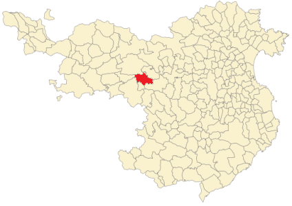 Olot